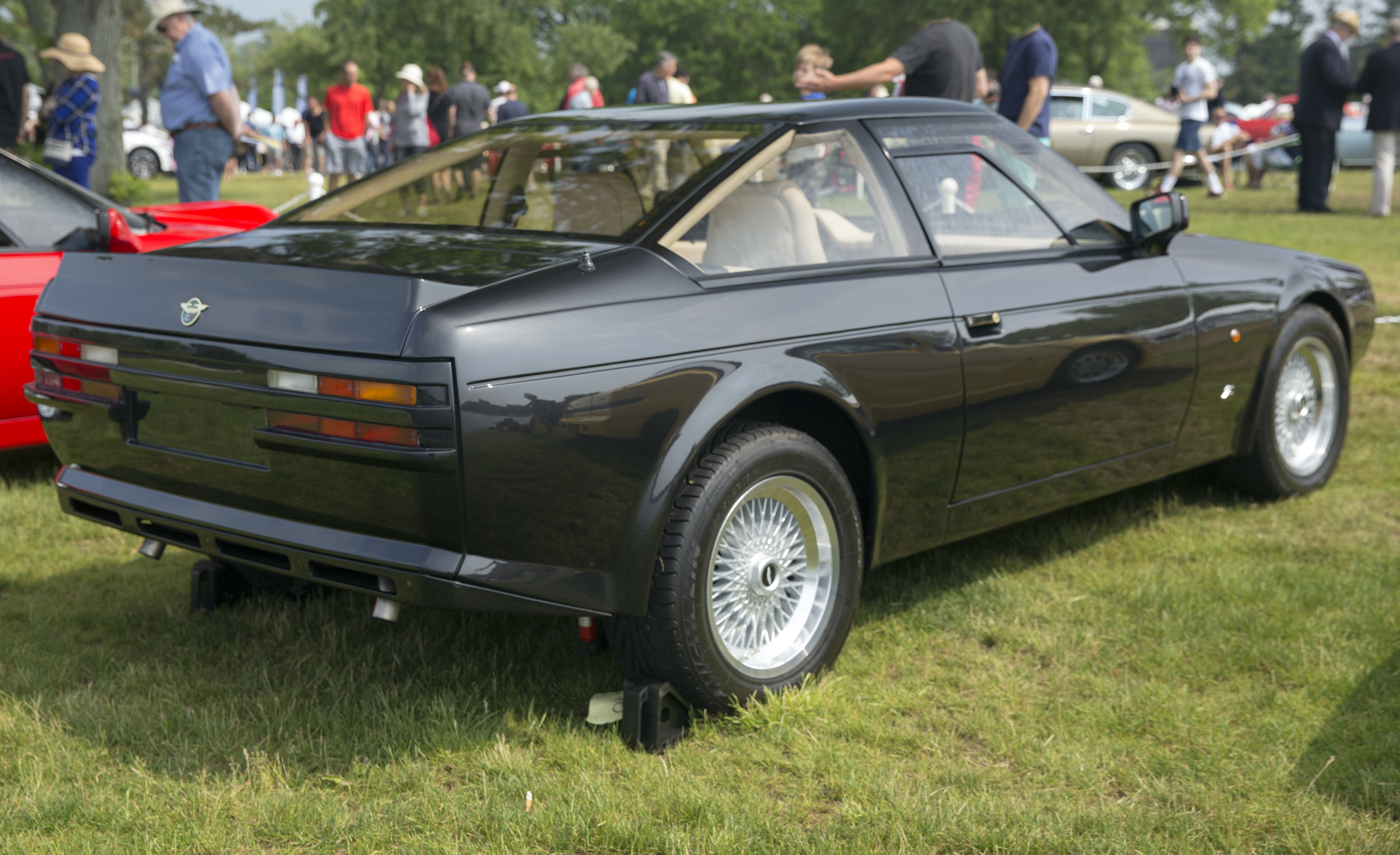 1987/1991 Aston Martin V8 Vantage Zagato, Litchfield Black over Parchment leather. Ordered new (in Javelin Grey over Grey, finished in September 1987) by Abdelaziz bin Khalifa Al Thani of Qatar, he crashed it in Spain in 1989. He then had Aston Martin and Zagato make a brand new car with the original chassis number and using the original X-pack engine (fully rebuilt). It was finished in July 1991 as the last V8 Vantage Zagato. With Middle Eastern specs and a five-speed manual, the car was built again as Vantage Volante Zagato production was winding down. As such, the car benefits from all running updates introduced during the production run, including a different rear bumper, ebony interior finish, an Alcantara headliner and a locking center console. More here.